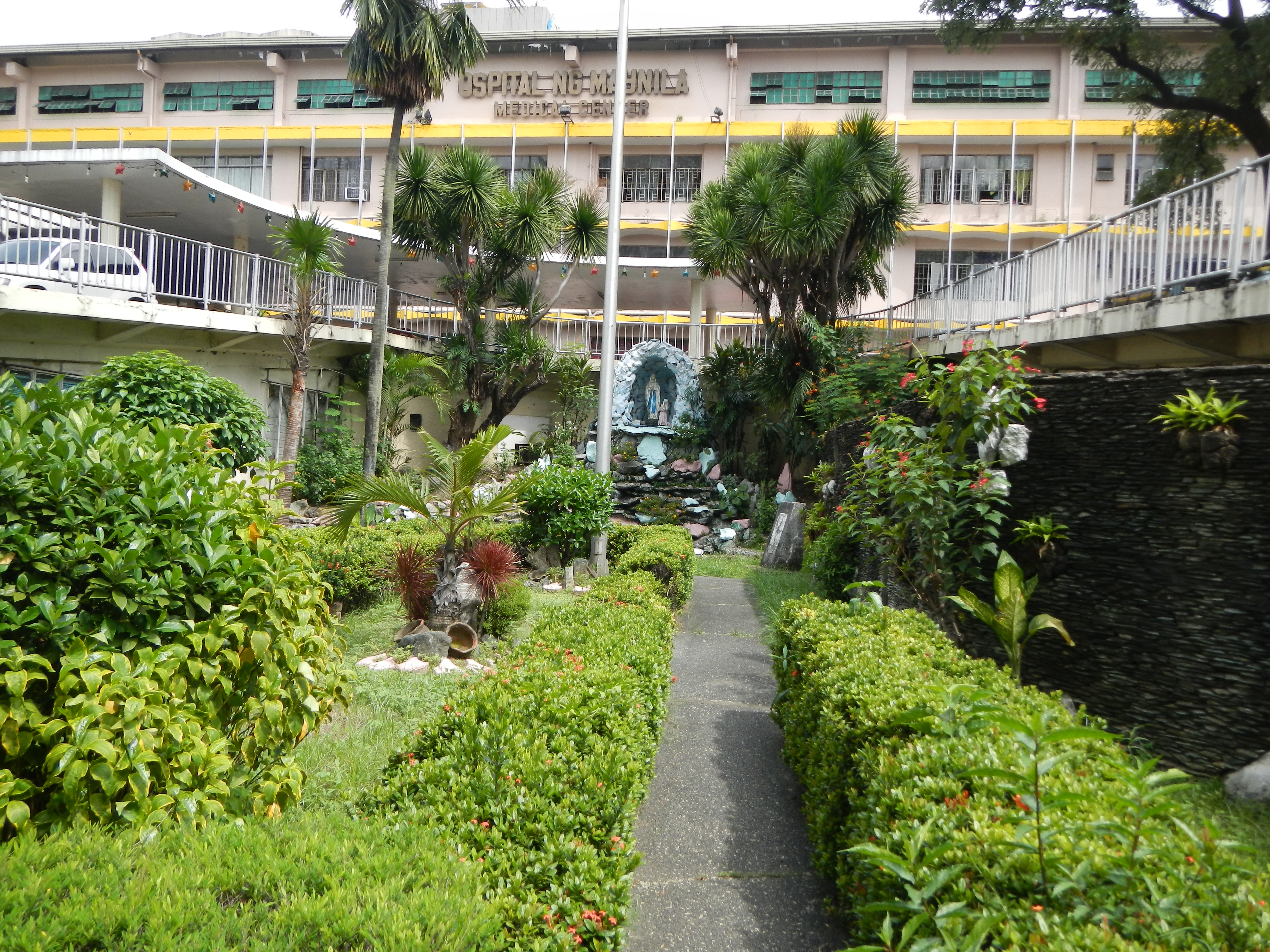 Ospital ng Maynila Medical Center[1] President Elpidio Quirino Avenue, Malate, [2] (Malate is an old district of the city of Manila in Metro Manila, the Philippines.) Manila, Metro Manila, Philippines.Website The Ospital ng Maynila Medical Center (Hospital of Manila; abbreviation: OMMC) is a 300-bed non-profit tertiary, general and training hospital in Malate, Manila, Philippines. It is the laboratory hospital of health science students (students of medicine, nursing and physical therapy) enrolled at the Pamantasan ng Lungsod ng Maynila[3], one of the Philippines' most prestigious universities.[4] Coordinates: 14°33'49"N 120°59'11"E